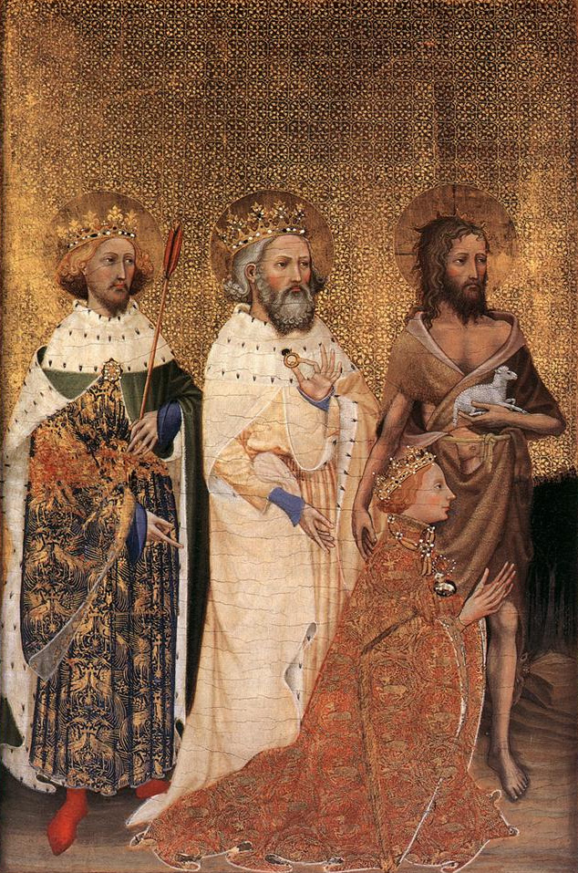 Richard II of England with his patron saints. The Wilton Diptych (c.1395-1399) is a portable altarpiece taking the form of a diptych. It was painted for King Richard II.